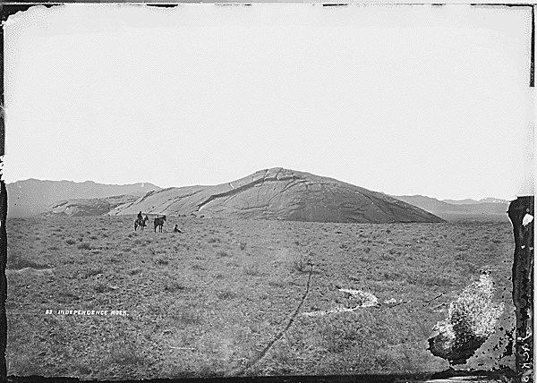 Original description: Independence Rock, Wyoming. Noted landmark on the Oregon Trail, a granite dome rising out of the Sweetwater Plain, 195 feet high and 1500 yards in circumference. Origin of name obscure; Bonneville, in 1832, makes no mention of it, but Parker in 1835 does, as a well known name. It is the inscription rock of the West, carrying the names of many of the early trappers, travelers, and explorers. Fremont painted a large cross on it in 1842. Figure of horseman on summit of rock is Dr. Hayden., 1870